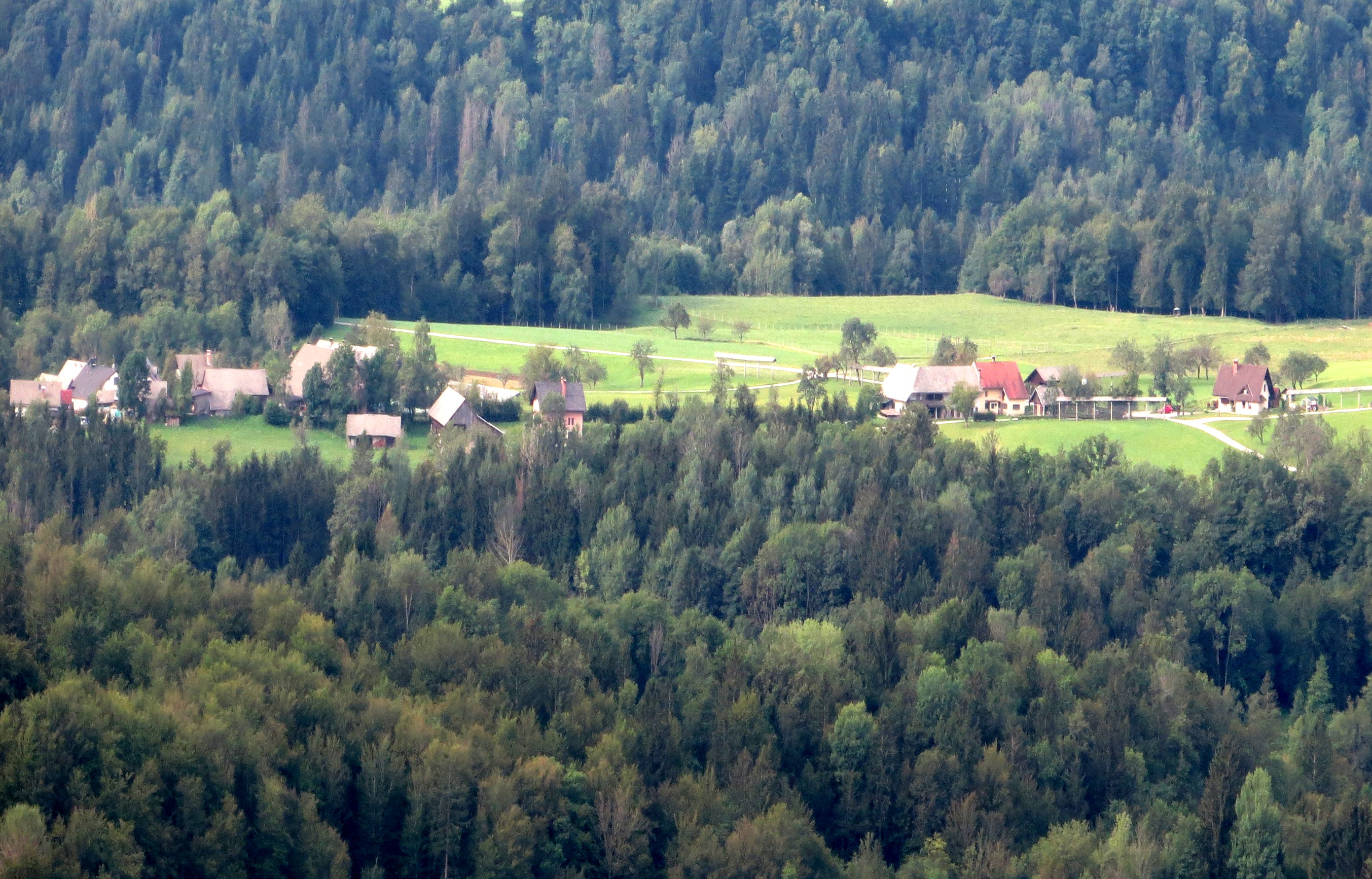 Peračica, Municipality of Radovljica, Slovenia viewed from Hudi Graben